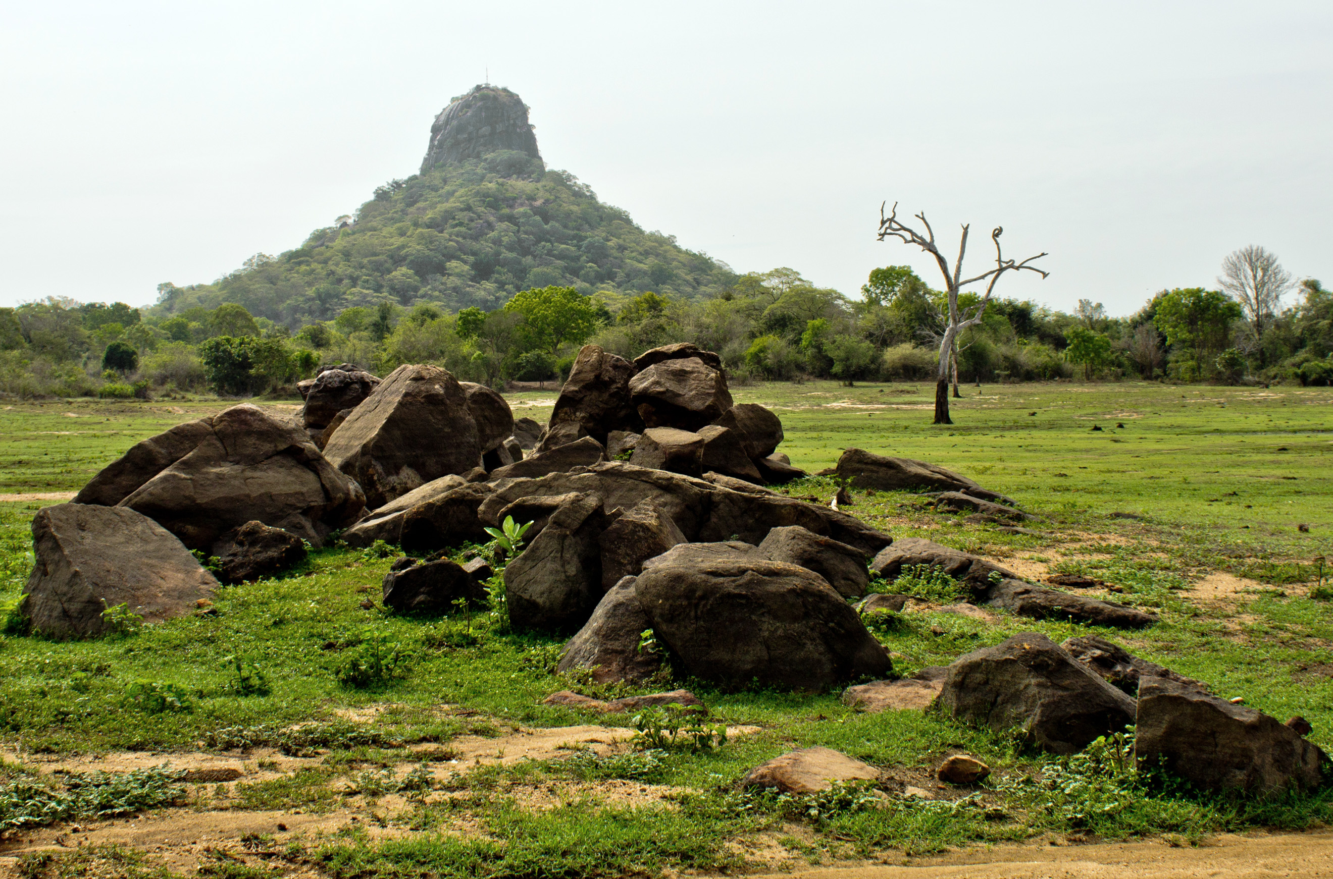 Kudumbimalai or Thoppikkal in Batticaloa, Sri Lanka